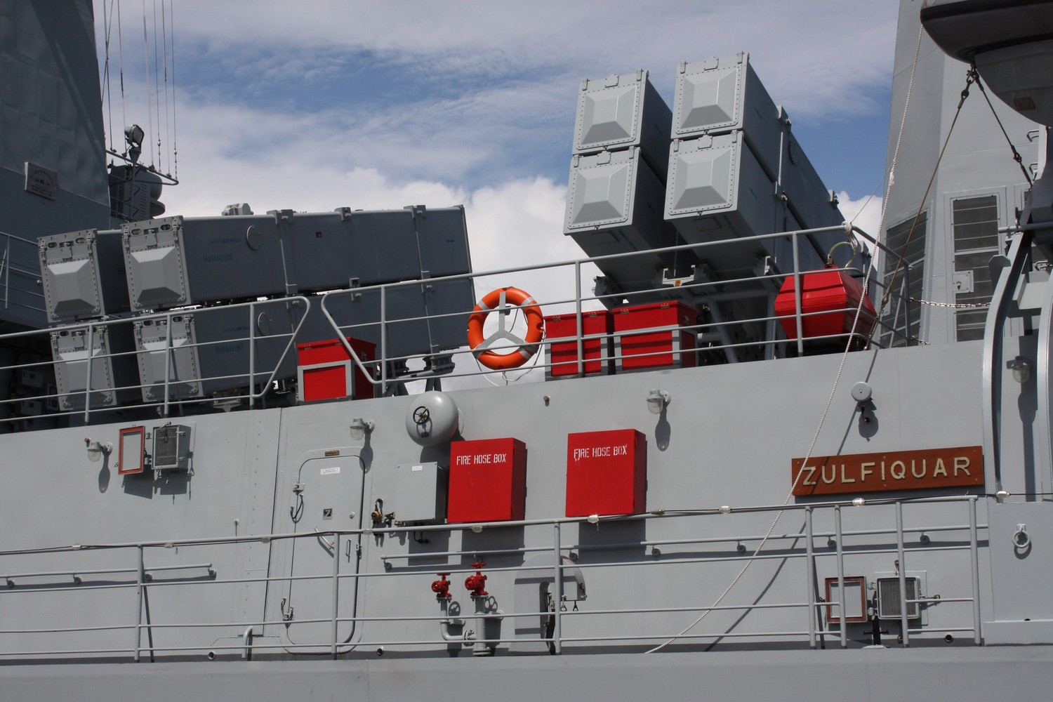 C-802 anti-ship missiles carried in two launchers with four cells each, installed on the F-22P class frigate PNS Zulfiquar. Picture taken during the ship's goodwill visit to Port Klang in Malaysia, August 2009.